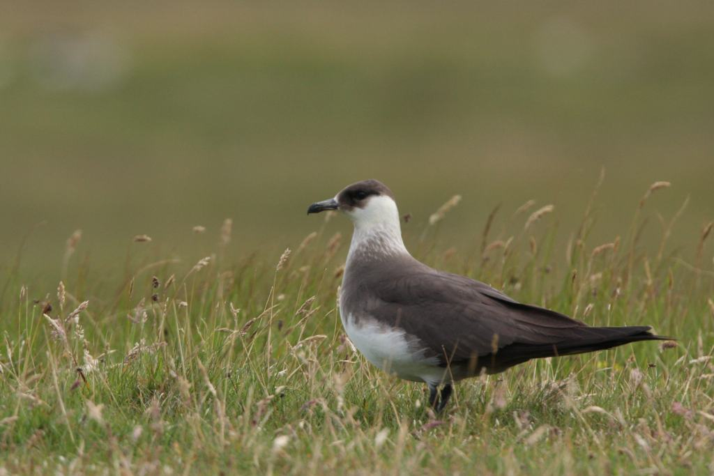 arctic skua